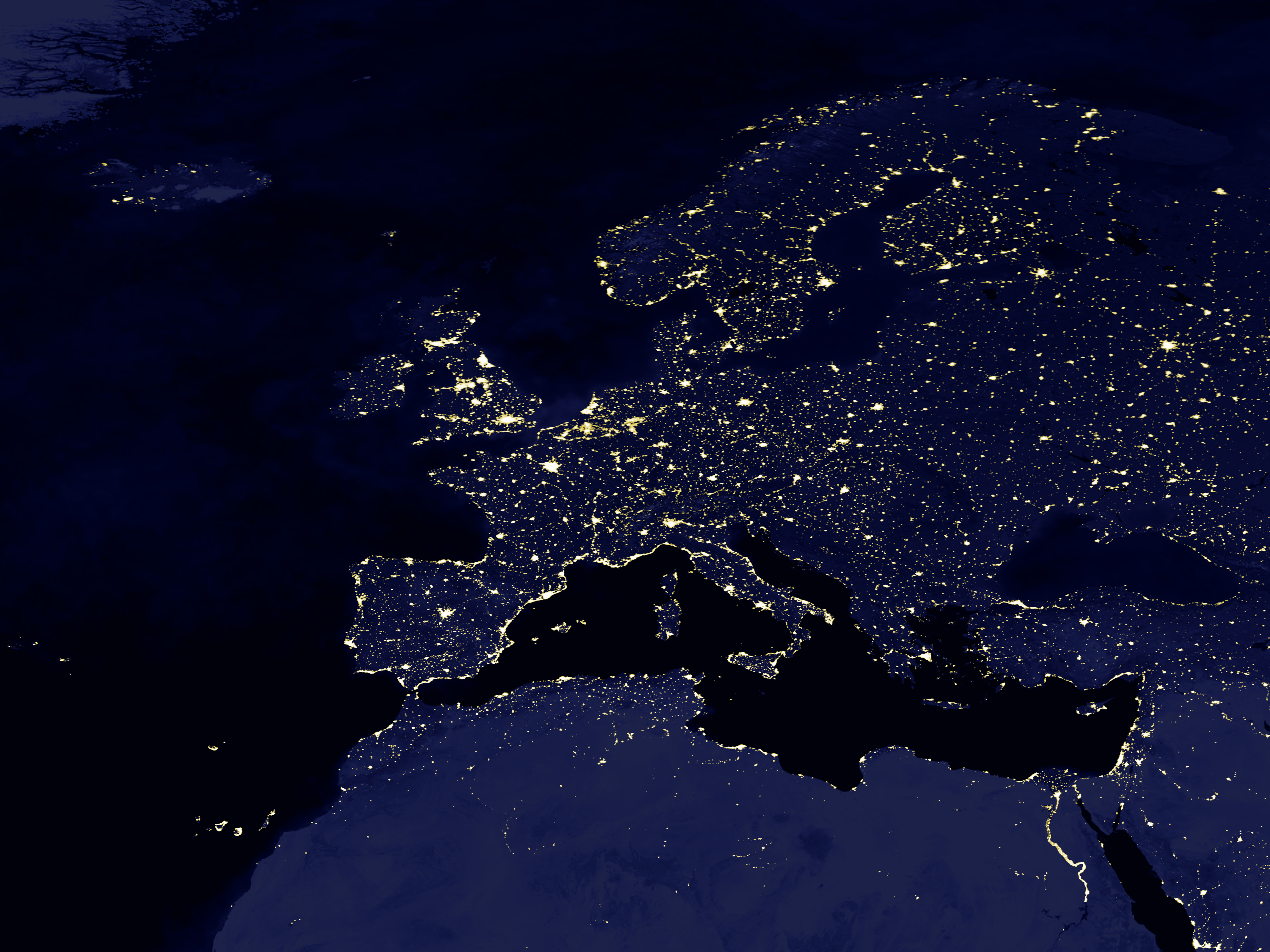 Composite image of Europe at night.